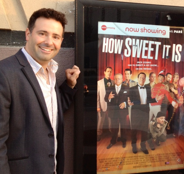 Brian Herzlinger at premiere of his film "How Sweet It Is"